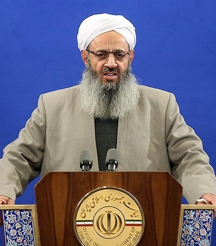 Molavi Abdul Hamid